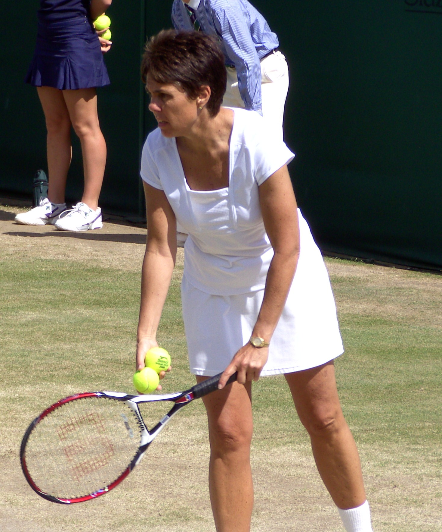 Ilana Kloss playing at Wimbledon 2008